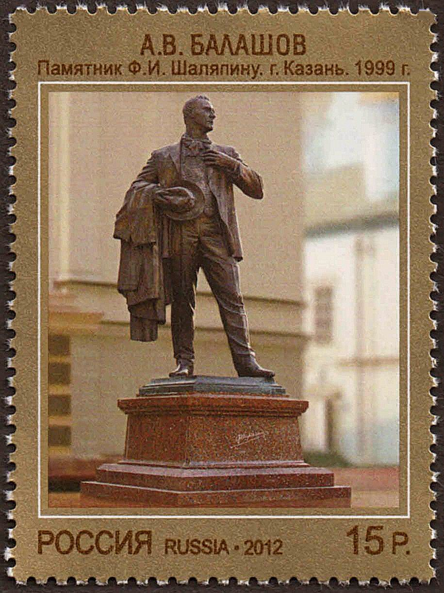 The contemporary art of Russia (the ongoing series, issue II).The monument to Feodor Chaliapin in Kazan by Andrey Balashov. 1999.Andrey Vladimirovich Balashov (born 13 June 1957) is a Russian sculptor, a Meritorious Artist of Russian Federation, a full member of Russian Academy of Arts, the author of numerous (more than 100) sculptural artworks installed in Russia and other countries (Armenia, Germany, South Korea etc.)The stamp of Russia, 15.00 Rubles, 30 June 2012, PTC Marka Catalogue No 1612, Michel No 1845. Coated paper, varnish coating, bronze paste. Offset printing. Perforation: comb 11¼:12. Size of the stamp: 37×50 mm. Print run: 240,000.